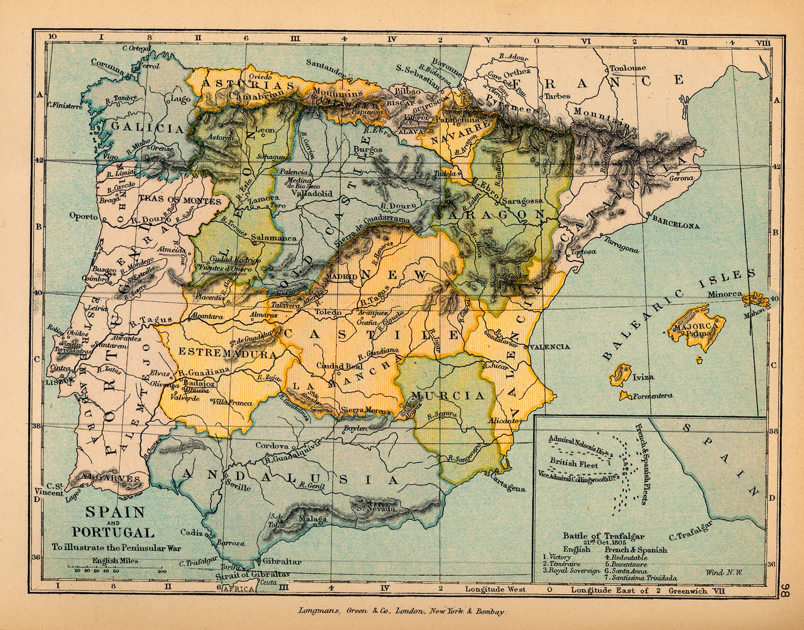 Map of Spain and Portugal to illustrate the Peninsular War and the Battle of Trafalgar